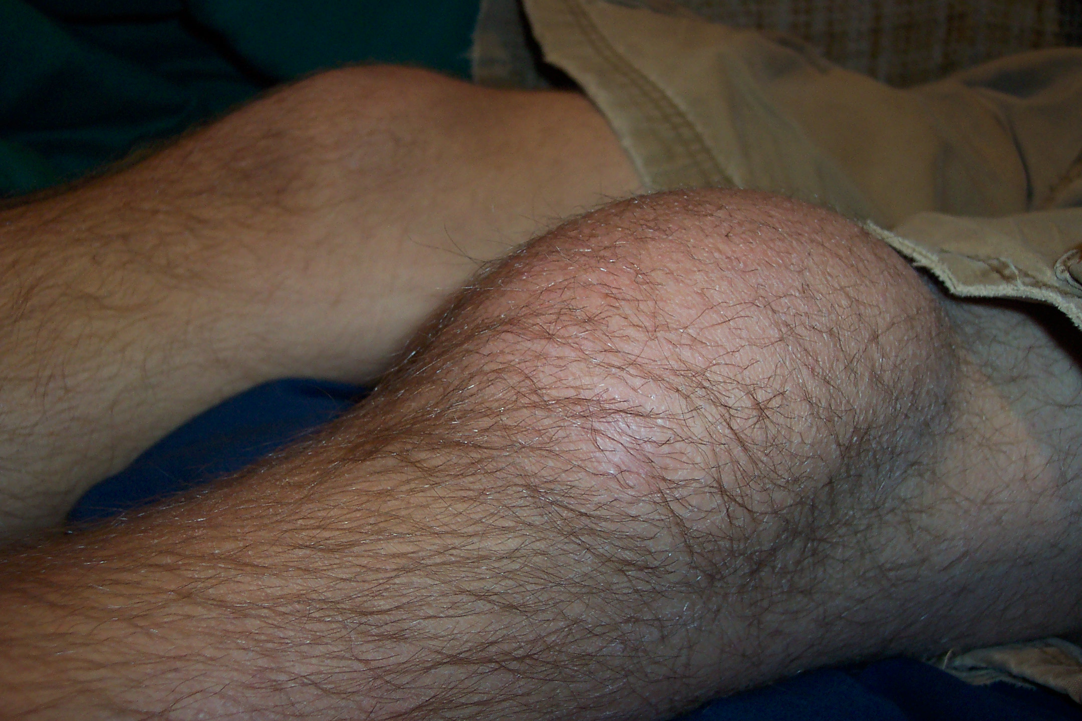 Photograph of prepatellar bursitis, with a reference knee in the background. Caused by a sports injury, fluid removed in attempt to treat, but the bursa was ultimately excised.